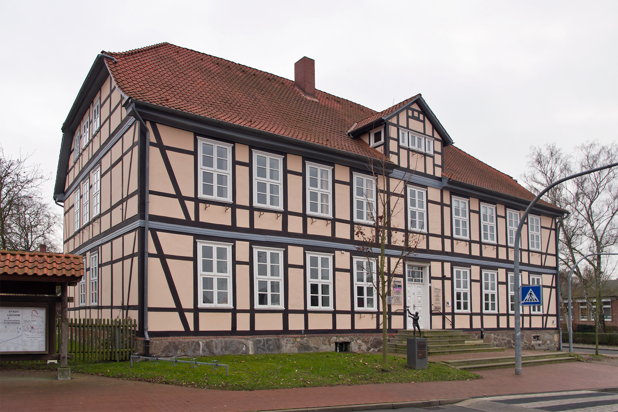 Historical office building ("Amtshaus") in the small town Lüchow (district Lüchow-Dannenberg, northern Germany).